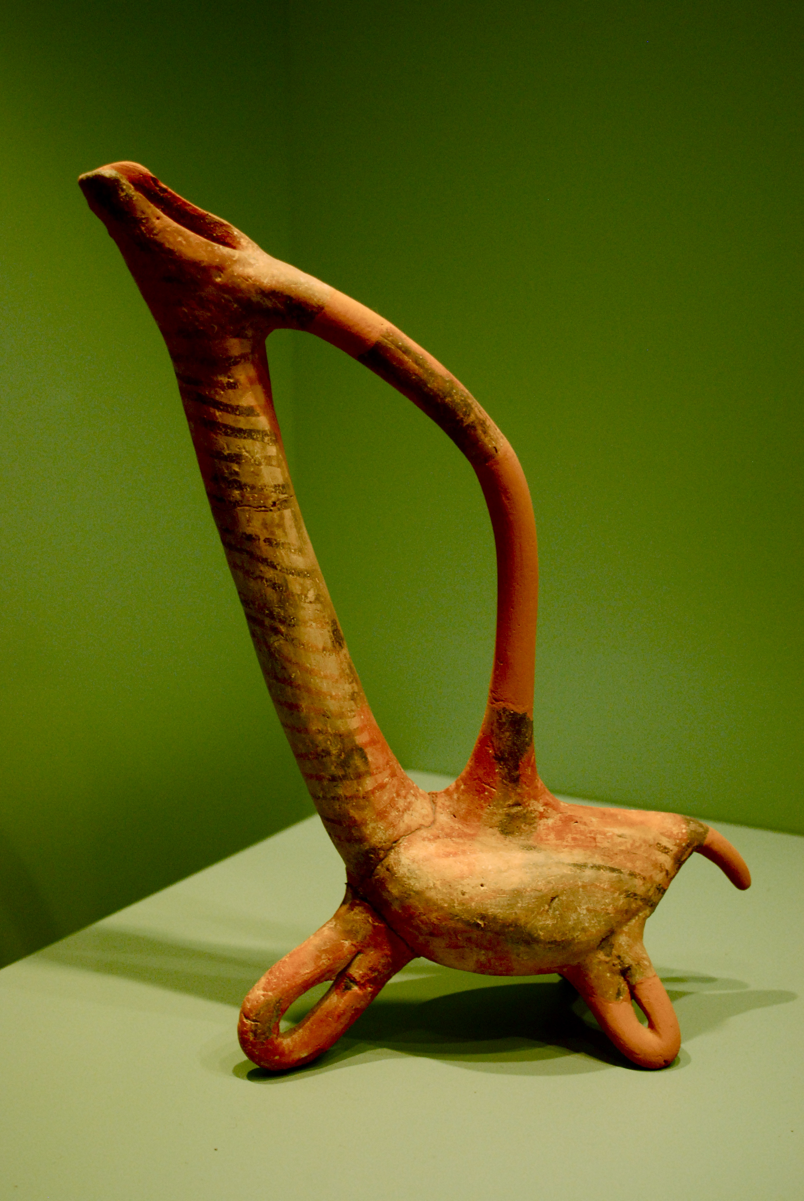 Archaeological Museum in Chania. Early Minoan bird-shaped vessel. Koumasa ware, 3000 - 2300 B.C. )